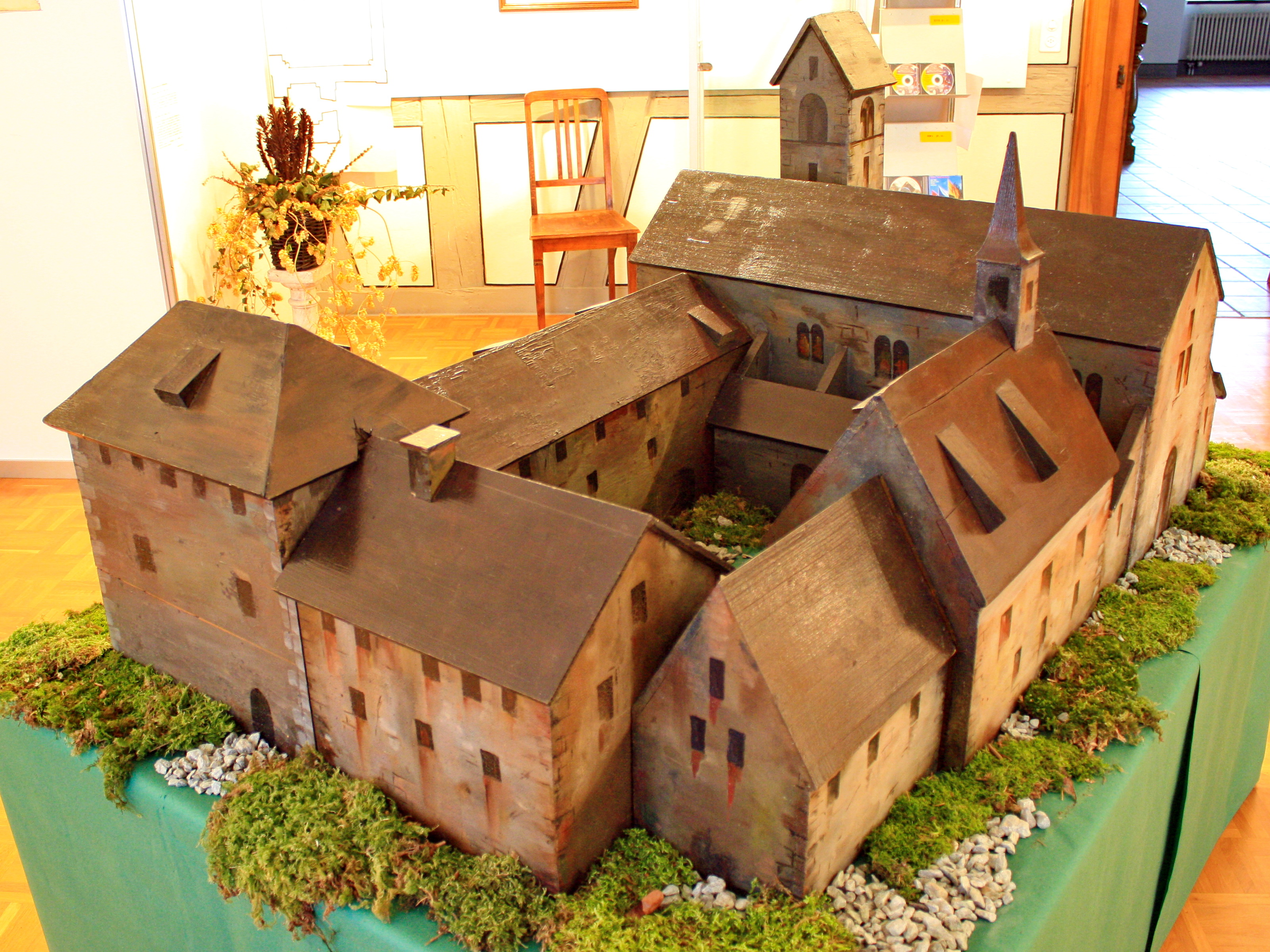 Rüti (ZH) : Scale model of the former Premonstratensian Abbey, Ortsmuseum (museum of local history) in the Amthaus Rüti (Bailiff's house).